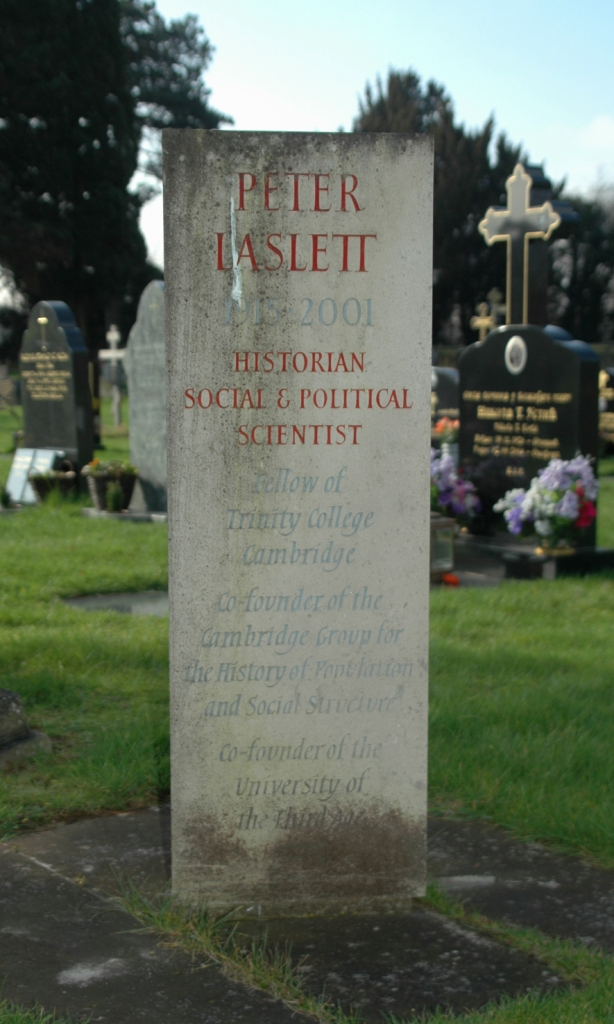 Headstone of the historian Peter Laslett in Wolvercote Cemetery, Oxford, England